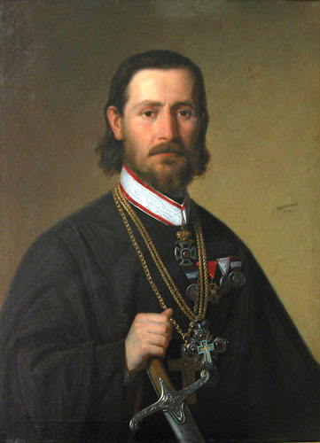 Portrait of Nićifor Dučić by Stevan Todorović, 1874, from the Serbian Academy